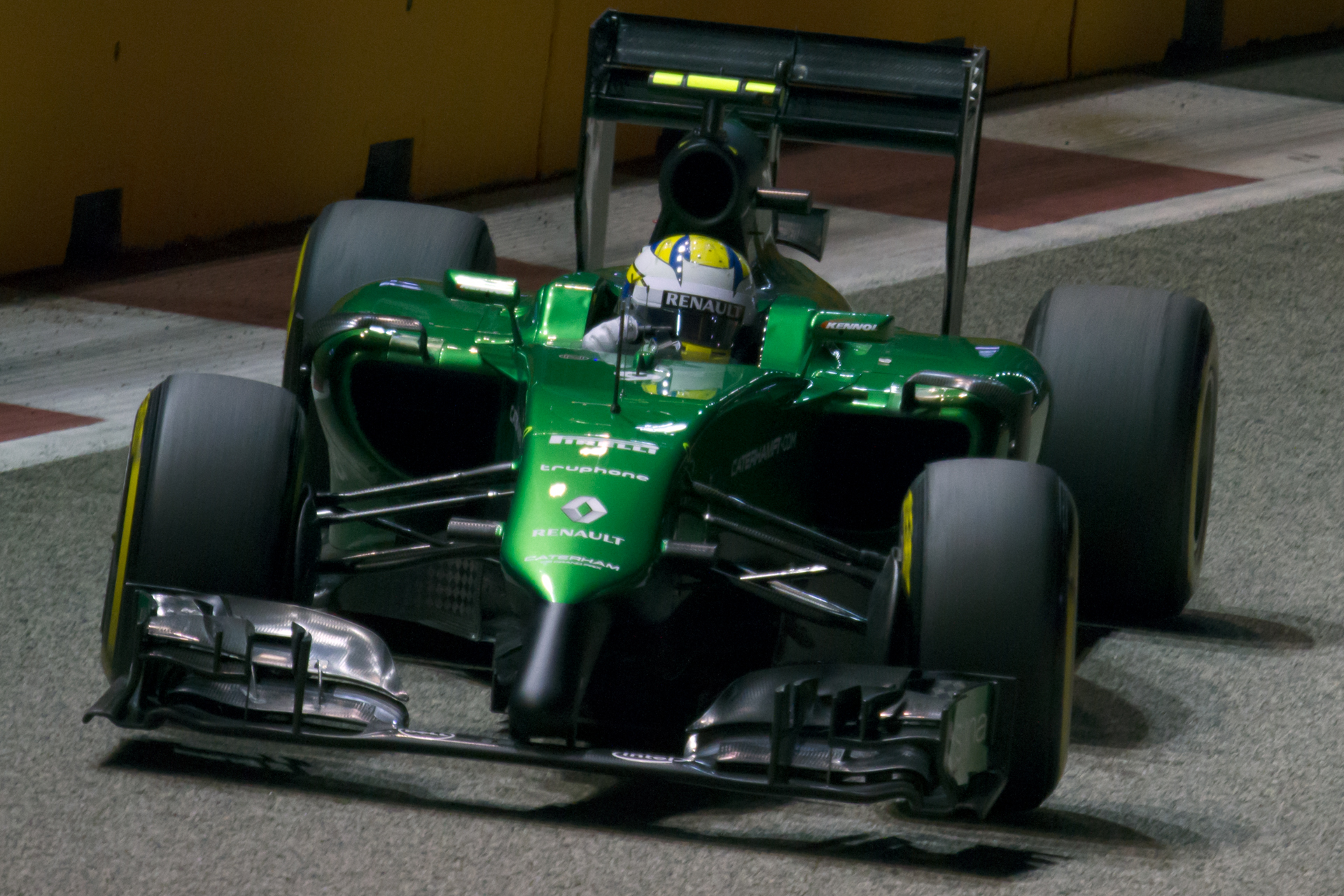 Formula One 2014 Rd.14 Singapore GP: Marcus Ericsson (Caterham)